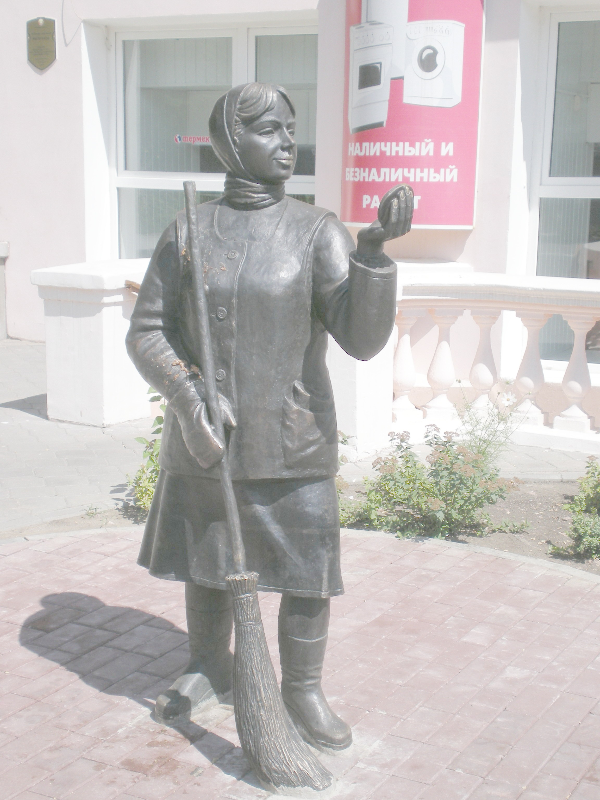 monument of Street sweeper